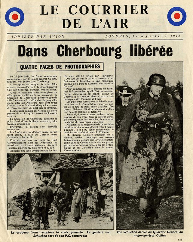 Leaflet dropped by the RAF on liberated Cherbourg in 1944.